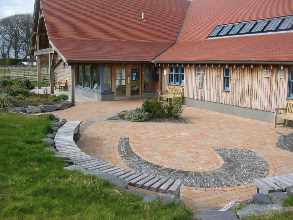 Aberlady, Waterston House Birdwatching Centre, East Lothian